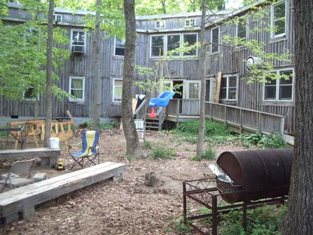 HeartWood At Acorn Community